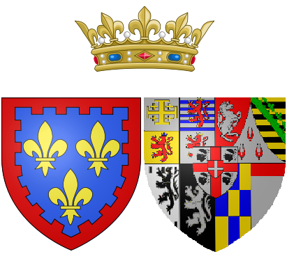 Coat of arms of Marie Thérèse of Savoy as Countess of Artois